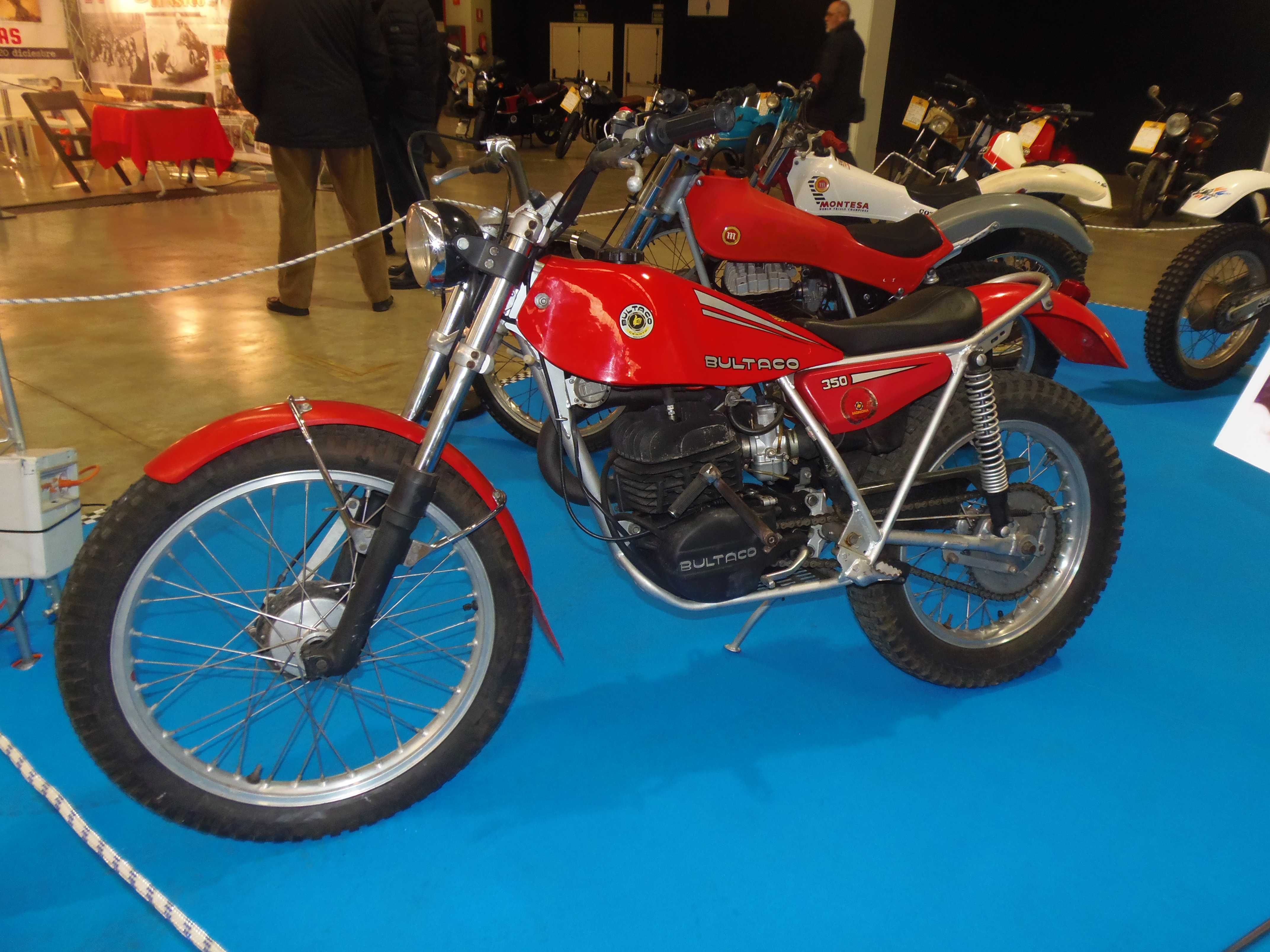 Bultaco Sherpa T 350, Model 199, 1978